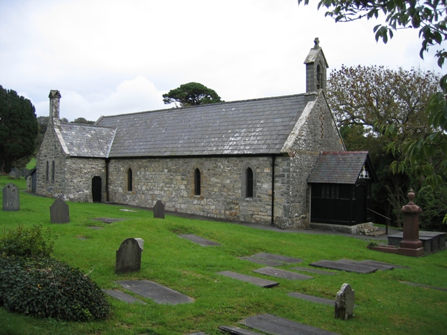 Llangian Church First recorded in the 13th Century, the church could be much older. The porch and vestry extensions, seen here were added in the 19th Century.